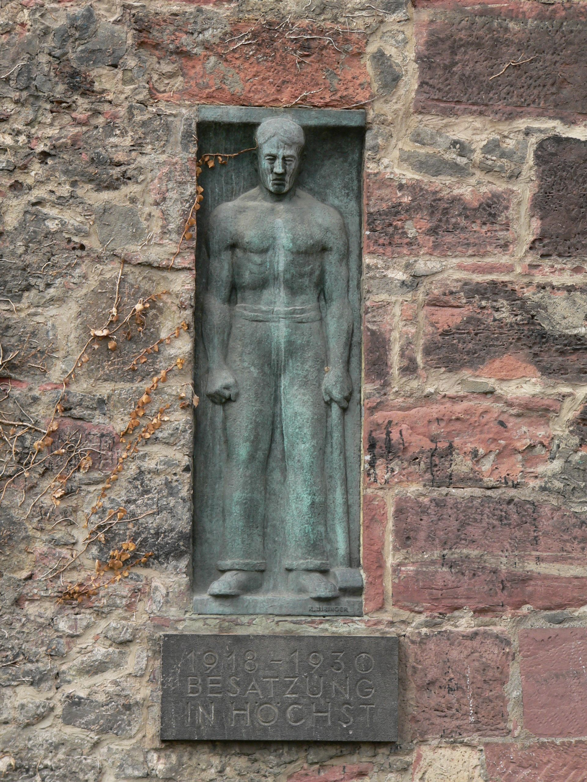 Memorial by the Höchst artist Richard Biringer (1877-1947) to the French occupation of Höchst from 1918 to 1930